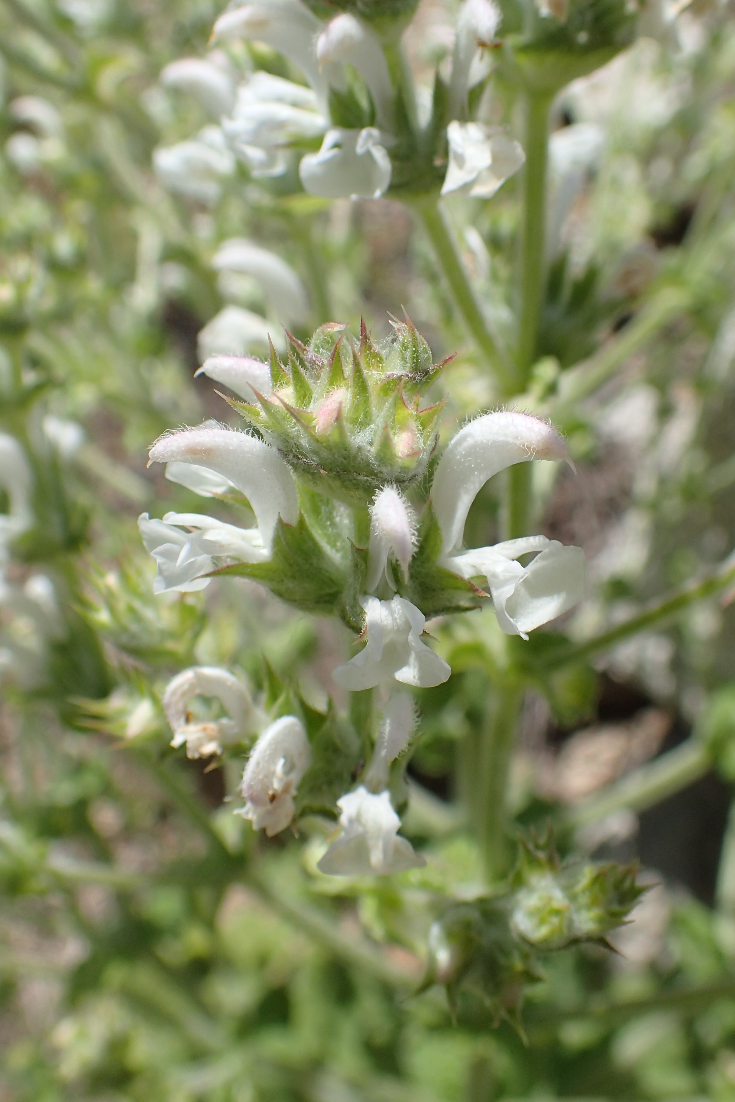 Salvia aethiopis in Shvanidzor (Armenia)